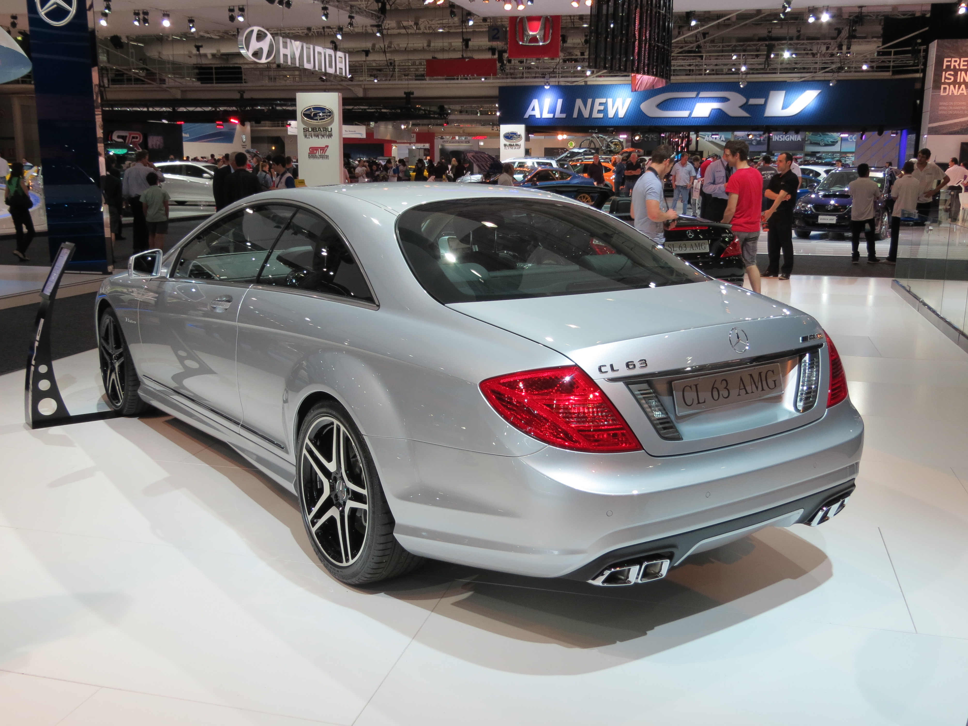 2012 Mercedes-Benz CL 63 AMG (C 216 MY11) coupe. Photographed at the 2012 Australian International Motor Show, Sydney, New South Wales, Australia.